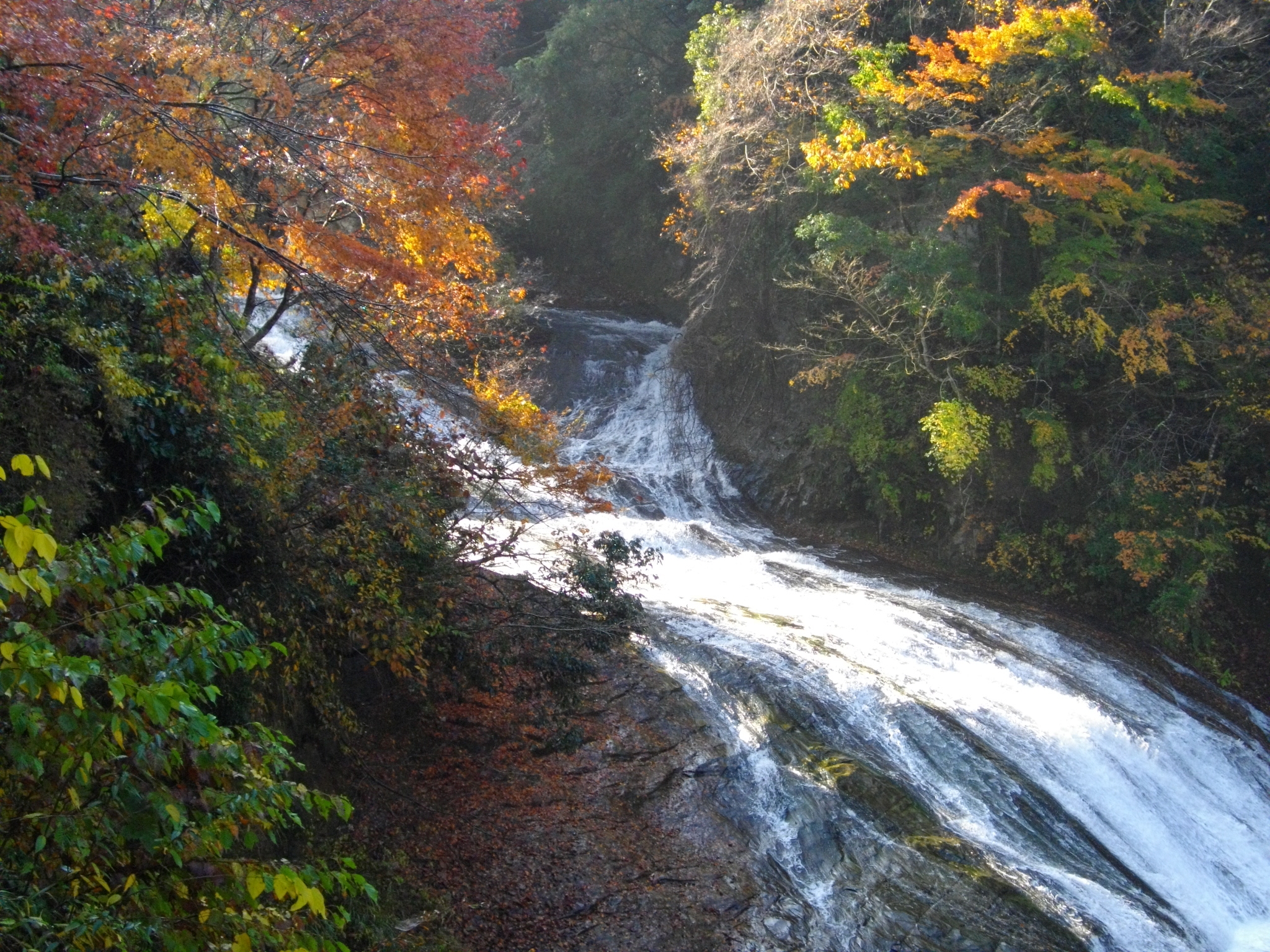 Taka Falls